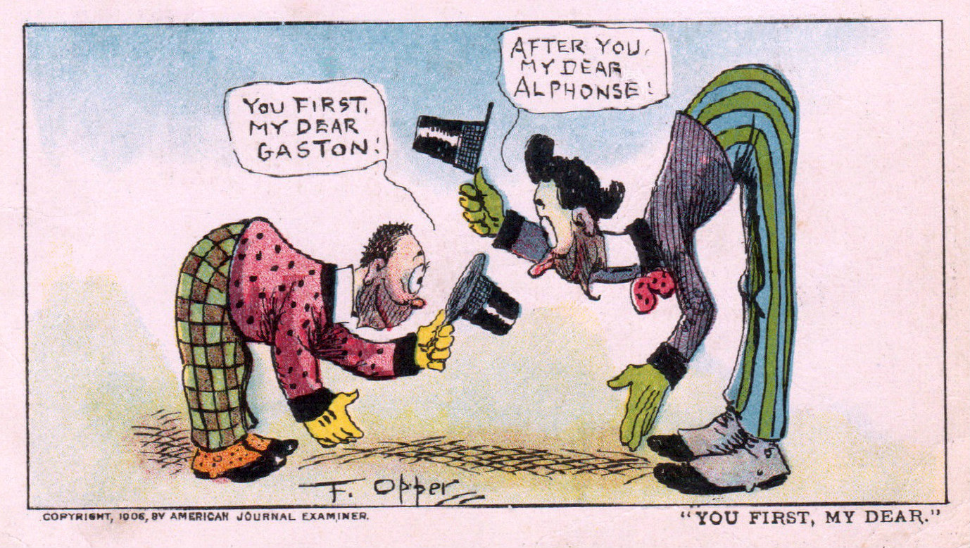 Frederick Burr Opper's Alphonse and Gaston, an early American comic strip featuring a bumbling pair from France.